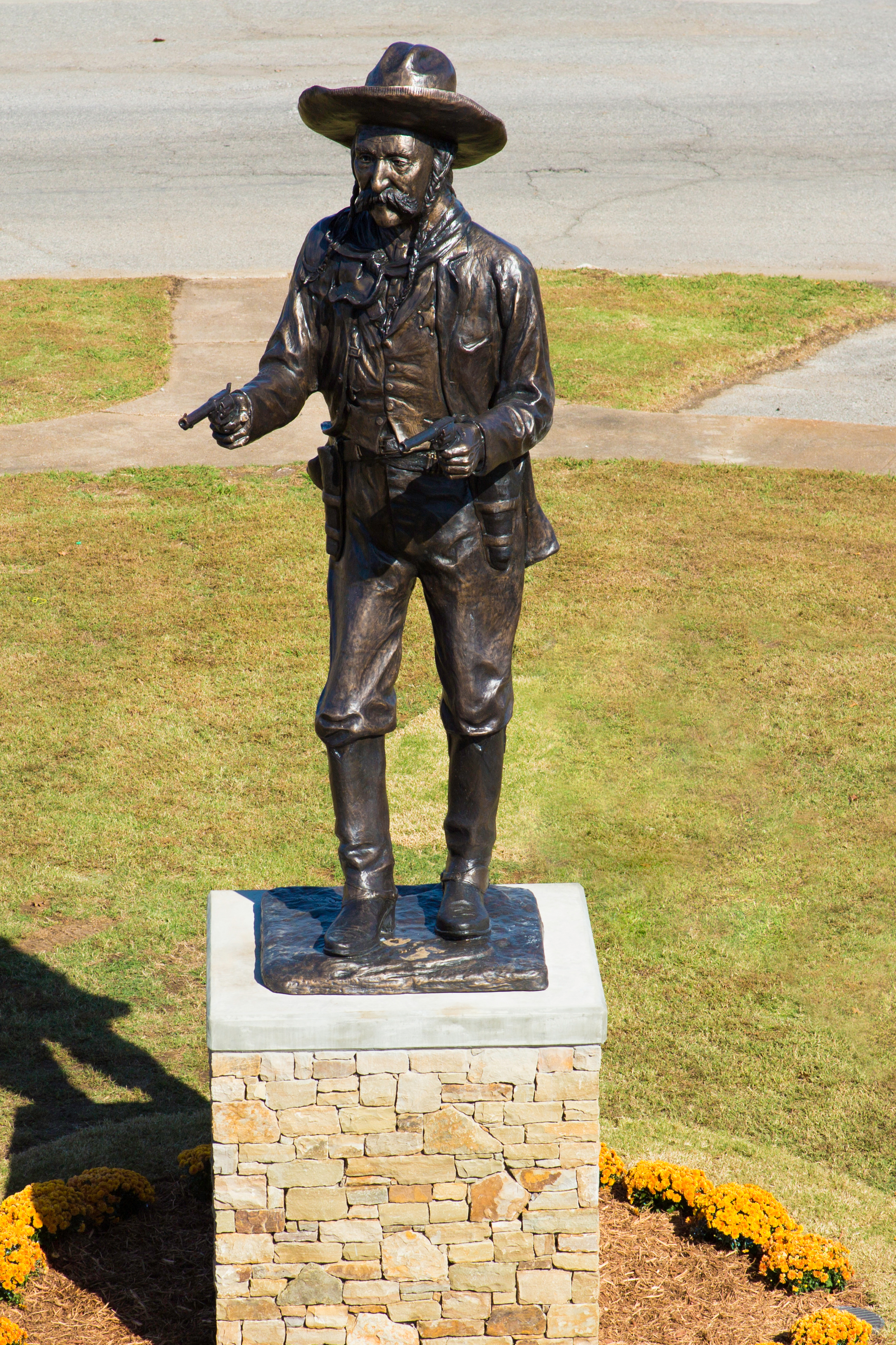 Statute of Oklahoma State University mascot "Pistol Pete" on the OSUIT campus in Okmulgee